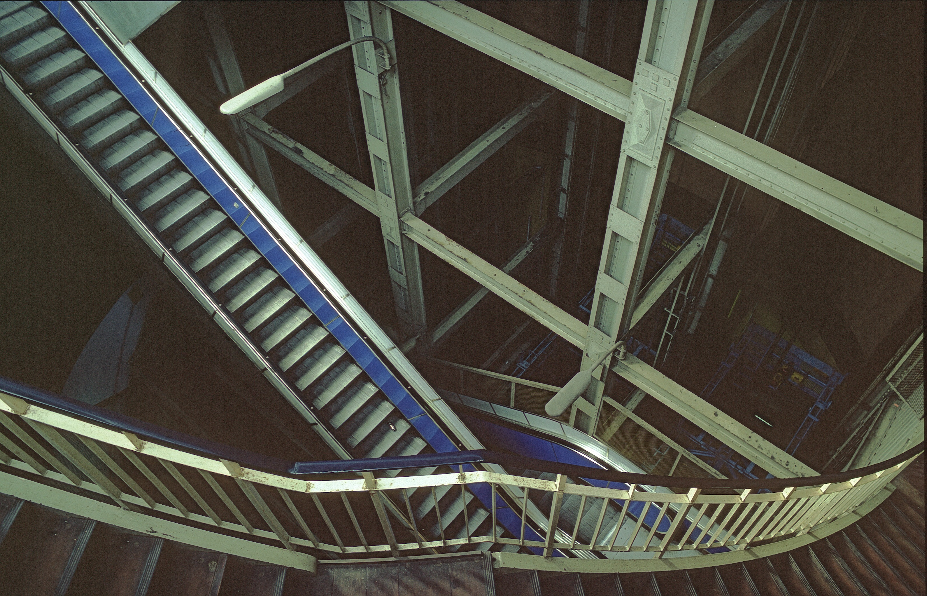 Former escalator in St. Pauli Elbe tunnel in Hamburg (removed in 1993)